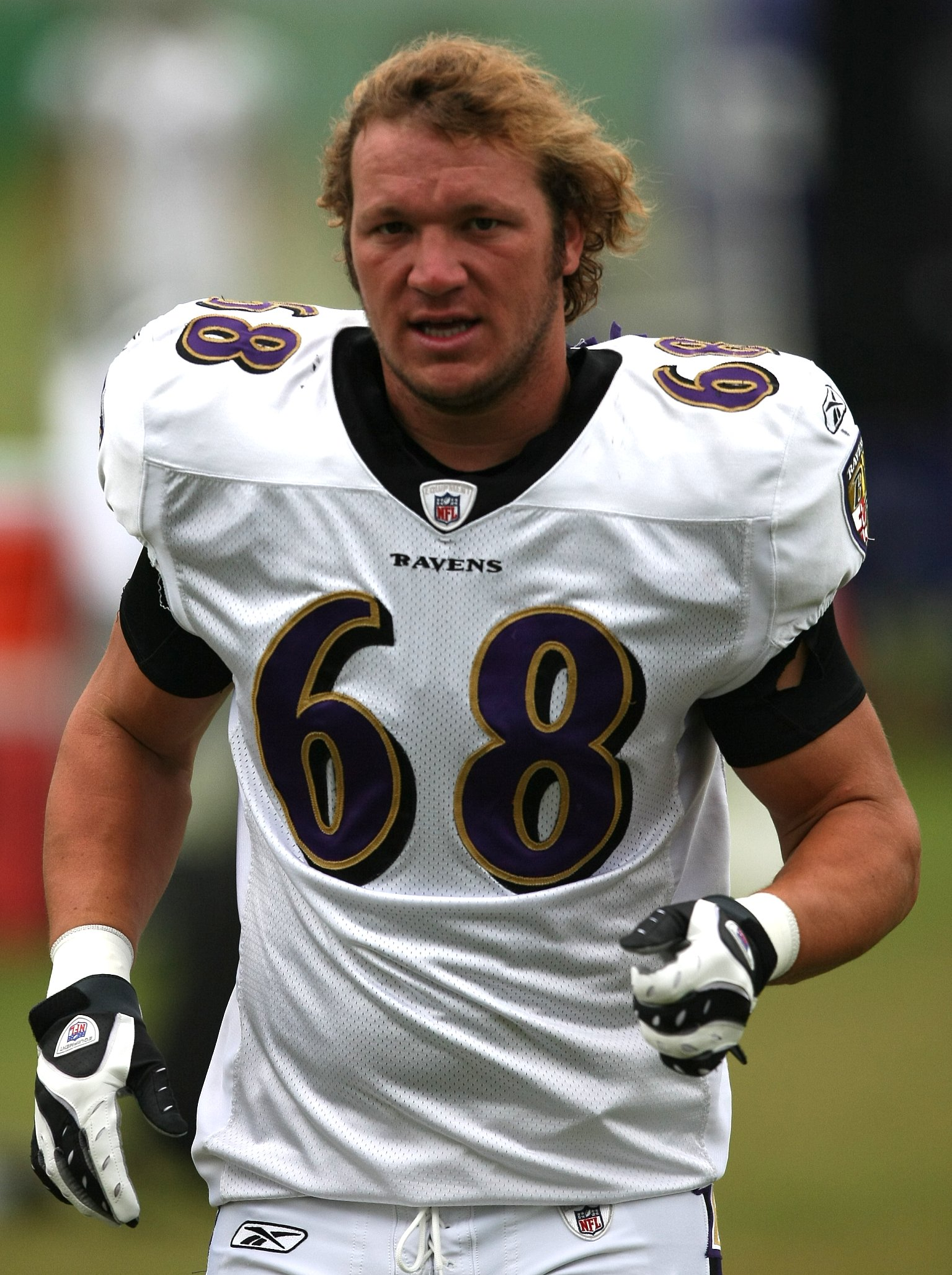 Baltimore Ravens Training Camp August 6, 2009